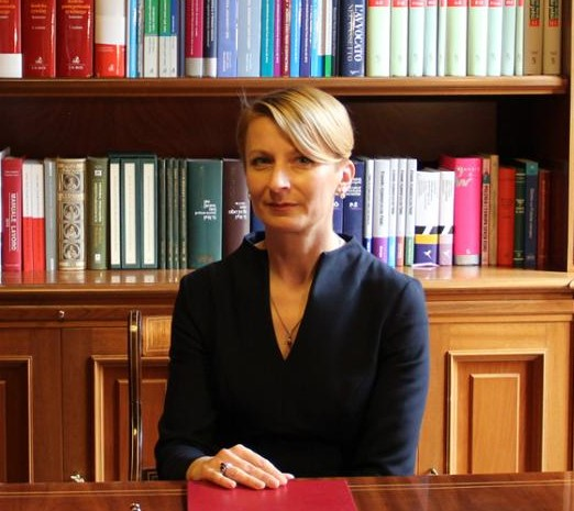 Adrianna Siennicka, Polish philologist and diplomat